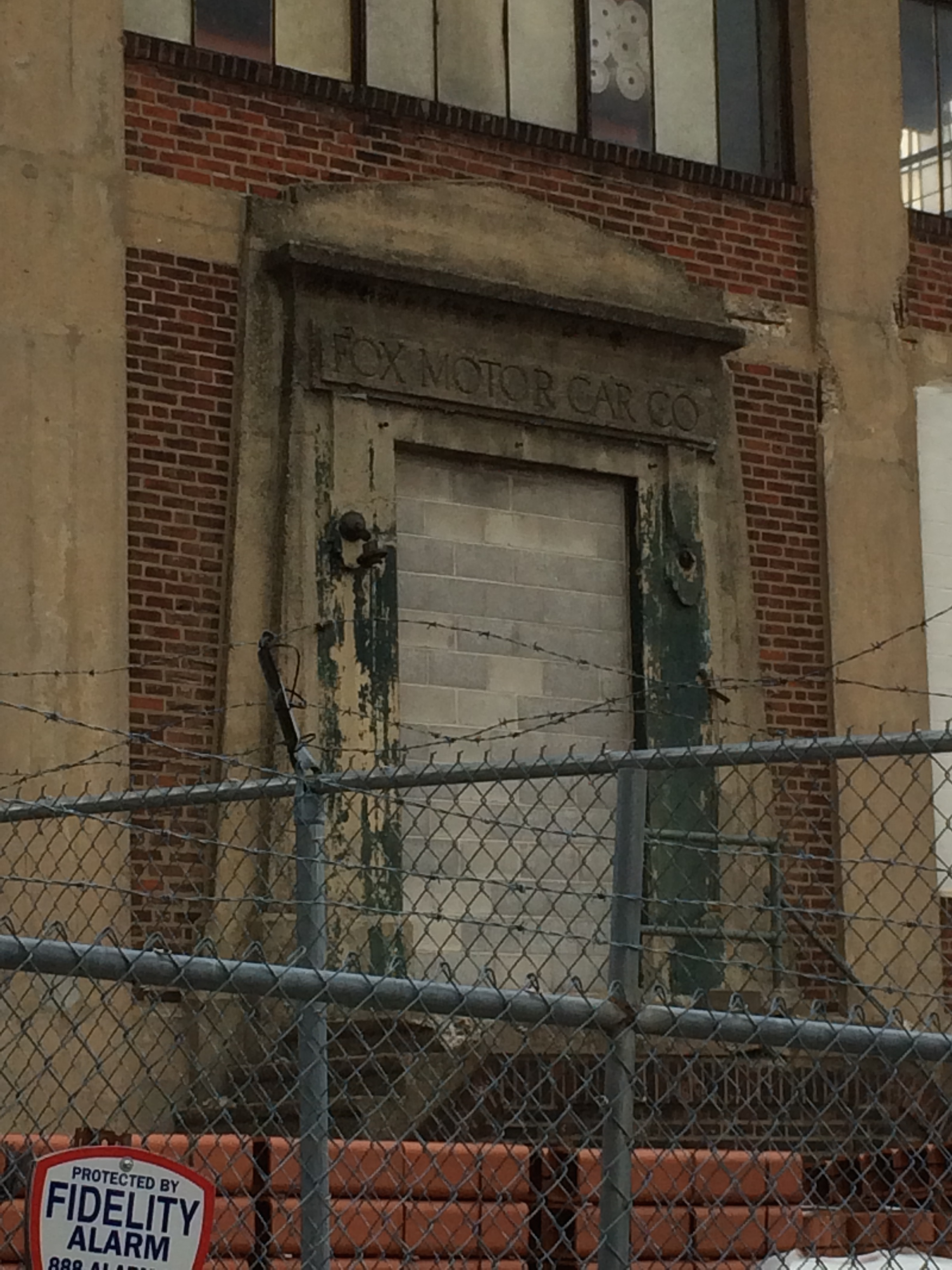 The original building of a short-lived automobile manufacturing company in Philadelphia. Building erected in about 1920.